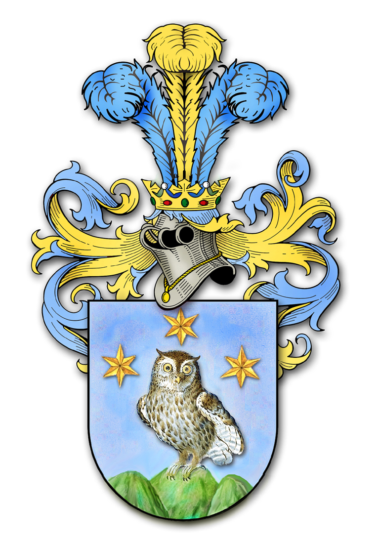 Family Artico of Ceneda coat of arms